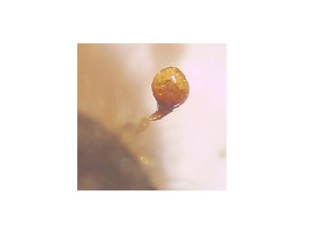 Ips_typographus_antenna.